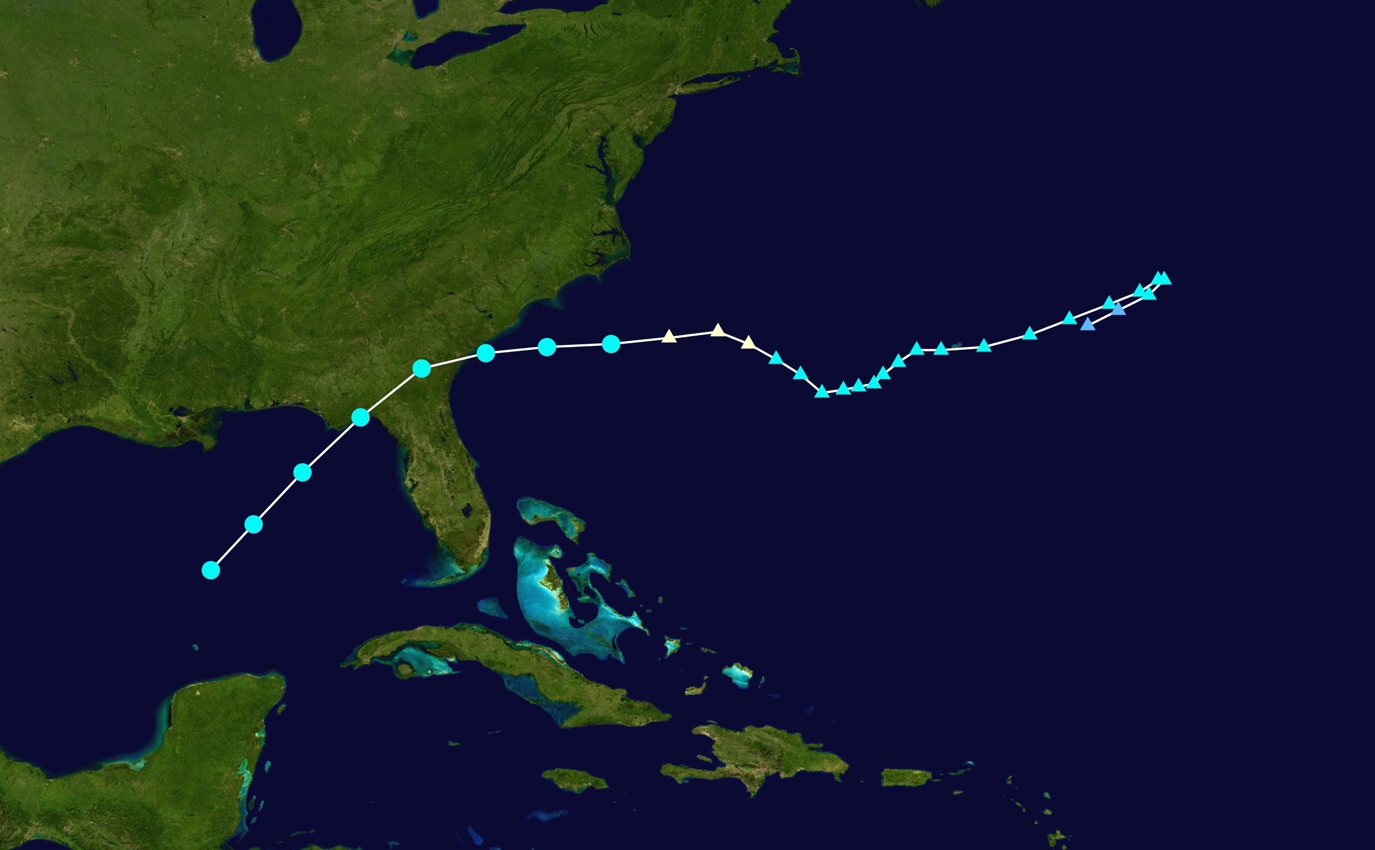 1957 Atlantic tropical storm 1 track. Uses the color scheme from the Saffir-Simpson Hurricane Scale.